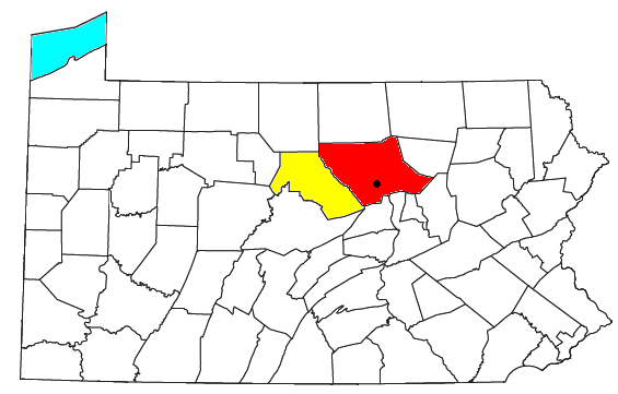 Locator map of the Williamsport-Lock Haven Combined Statistical Area in the northern part of the U.S. state of Pennsylvania. The two components of the CSA are colored separately: Williamsport Metropolitan Statistical Area: red Lock Haven Micropolitan Statistical Area: yellow City of Williamsport: dot